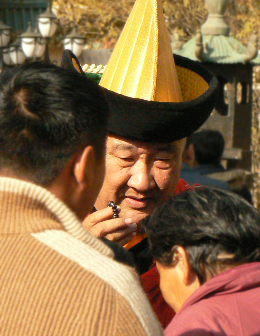 Hamba Choijamts of Gandantegchinlen Monastery Монгол: Гантантэгчинлэн хийдийн Хамба Чойжамц